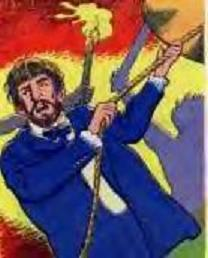 Puerto Rican revolutionist Manuel Rojas, drawing by Jose Santiago